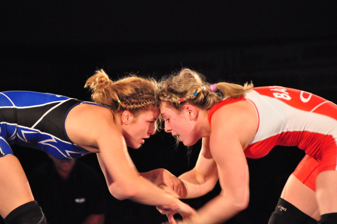 2010 Hargobind International Wrestling Championships.